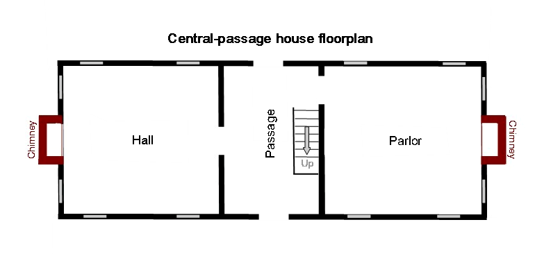 Floorplan of a central passage house house in the Southeastern United States.